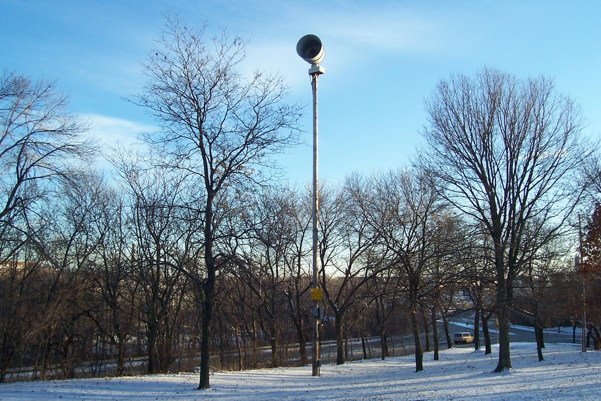 Copyright © 2009 Fedsigtbolt An example of a civil defense siren (also called a warning siren or tornado siren), found at Baran Park in Milwaukee. This model is a Tempest (T)-135 from Milwaukee based American Signal Corporation (ASC) (formaly known as ACA) which has an acoustical rating of 135 dB @ 100 feet, and has been recently modified with lower horsepower motor & battery backup This siren always comes in the color gray and rarely you see it in the form of yellow. This model of siren has been recently updated with a Shorter projector horn. They now all have battery backup and are known as the ASC T-135 AC/DC. Both versions are the largest and loudest in production today